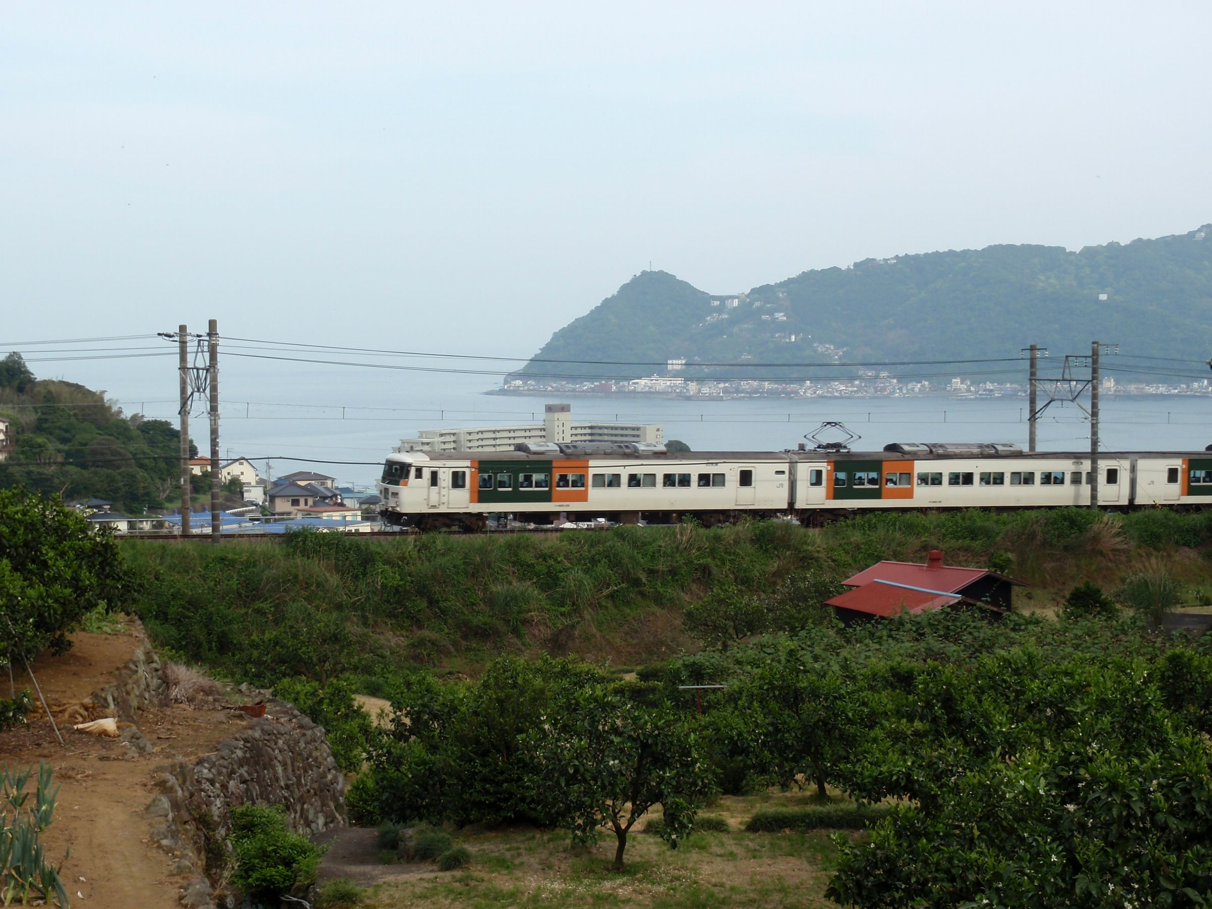 East Japan Railway type 185 "Odoriko" between Kinomiya Sta. and Izutaga Sta.